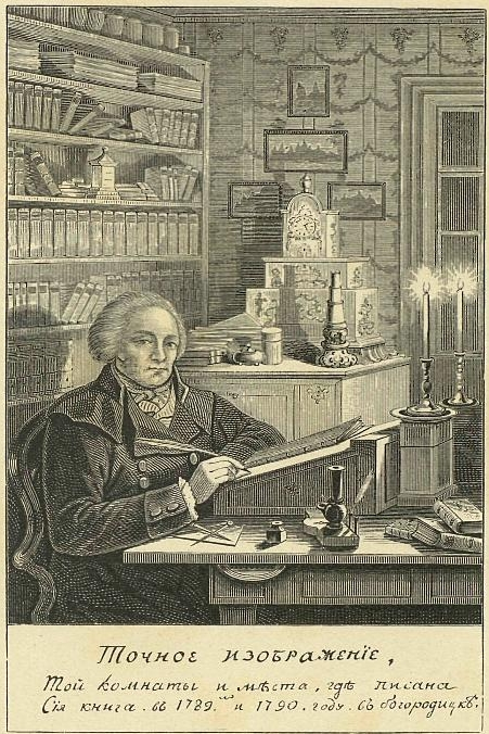 Andrey Bolotov